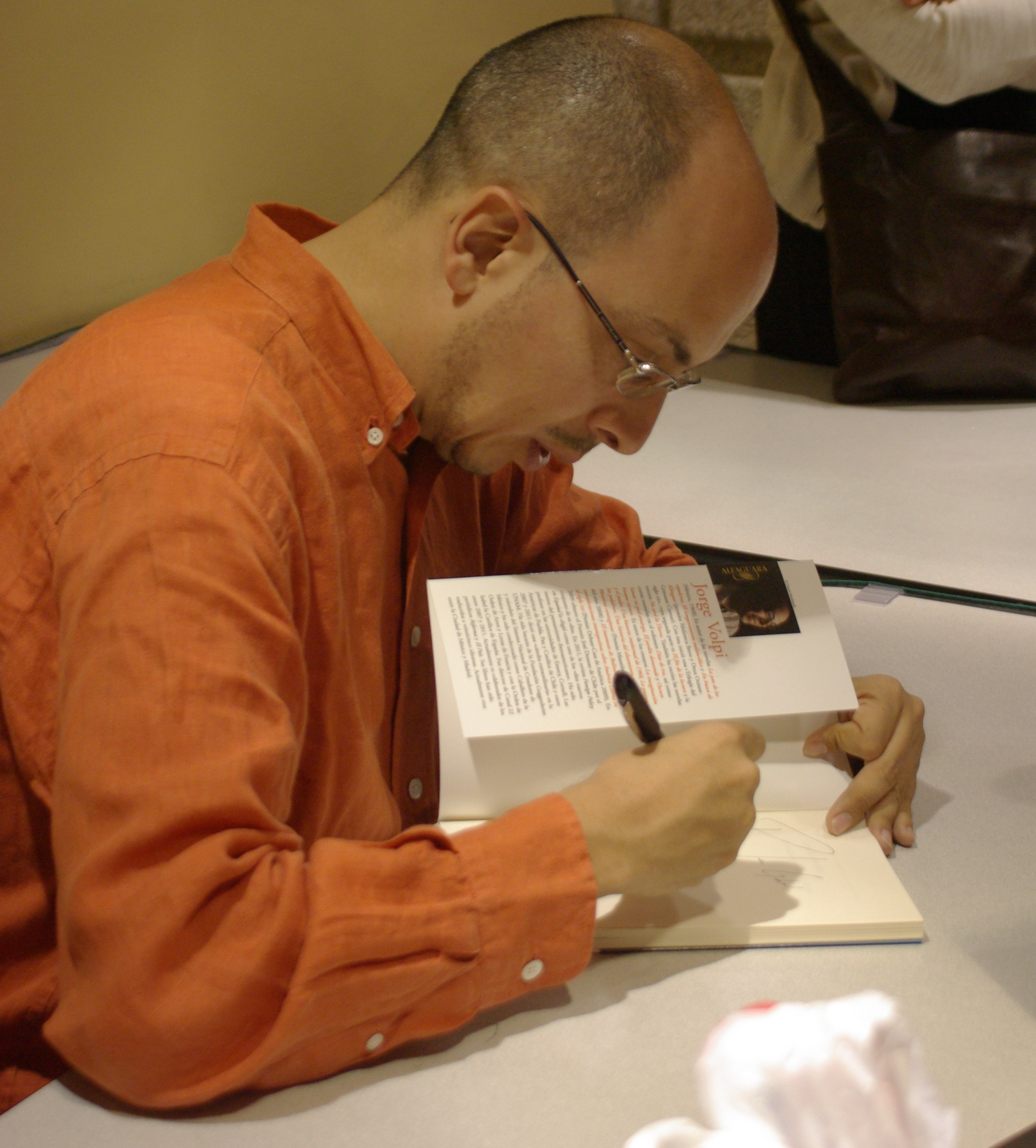 Mexican writer Jorge Volpi signing an autograph at the Miami Book Fair International 2011